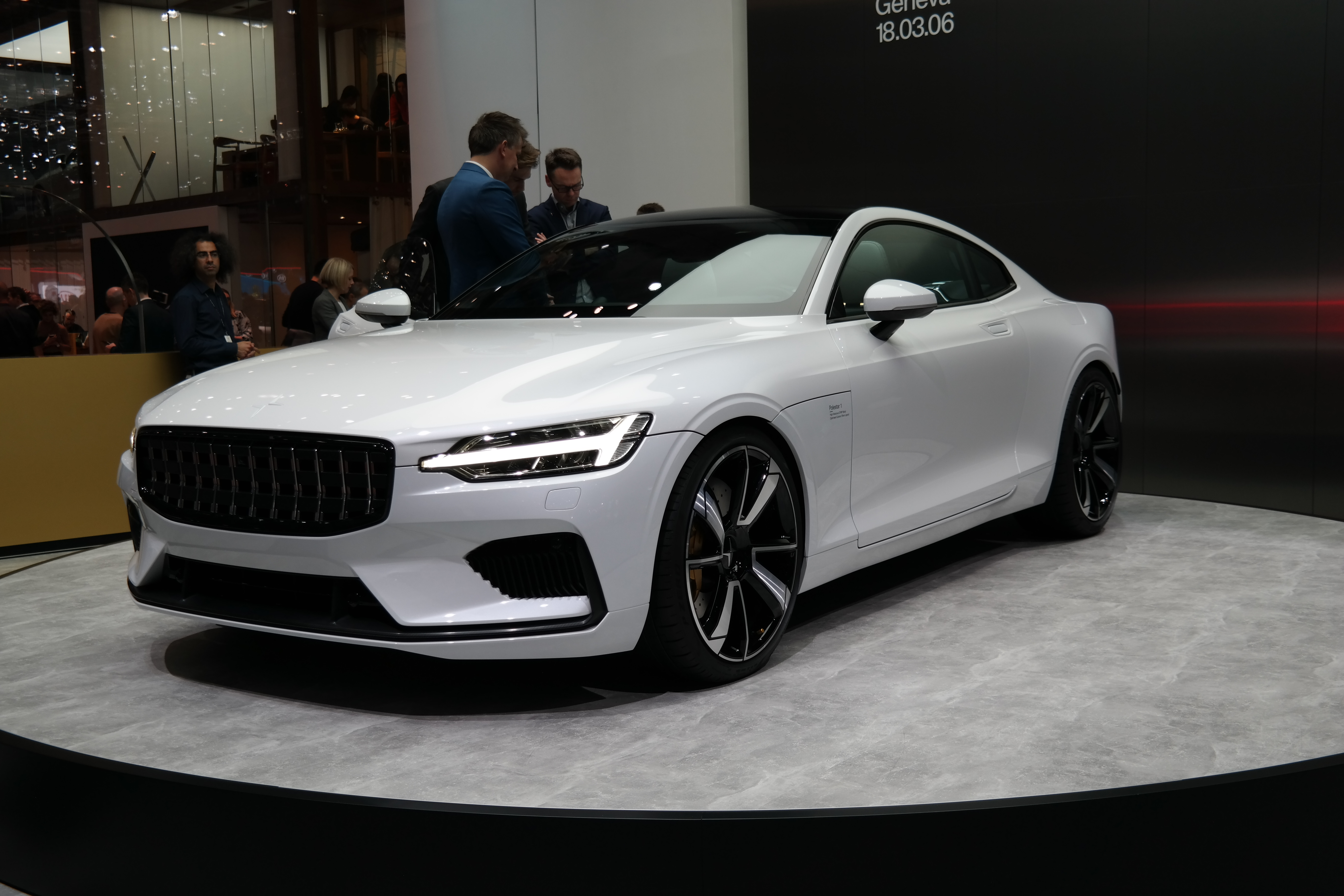 Geneva Motor Show 2018 (photo taken on the first press day)